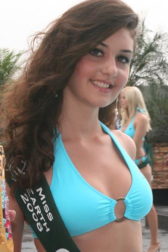 Sopiko Svimonishvili (სოფიკო სვიმონიშვილი) - Miss Earth Georgia 2008